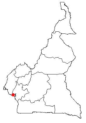 Tiko, Cameroon Location Map; created with the GIMP. Made by User:Acntx.